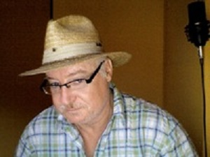 Jaroslaw Seidel, the polish poet from Gdynia